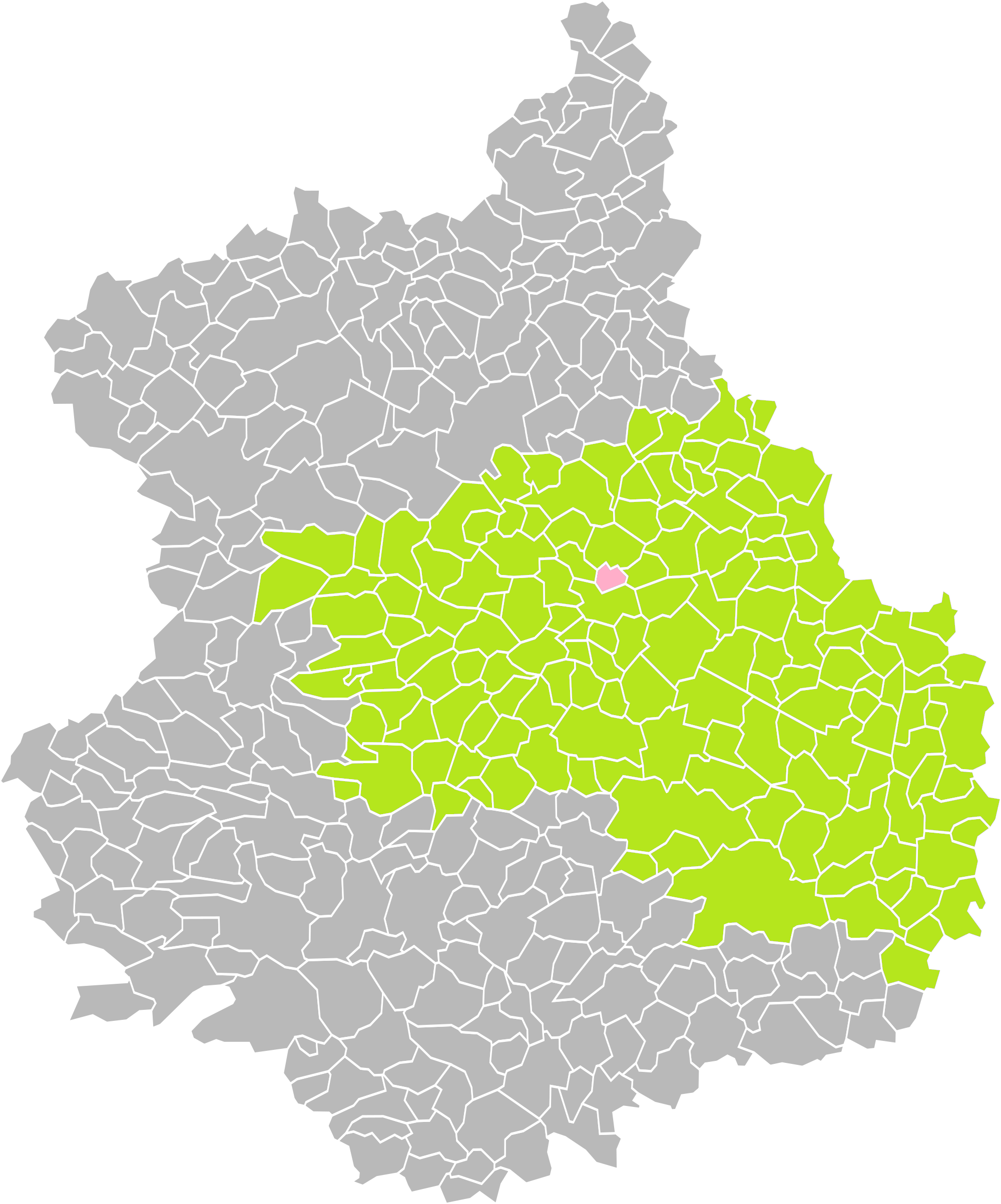 Location of the commune of Champhol in the arrondissement of Chartres (Eure-et-Loir)